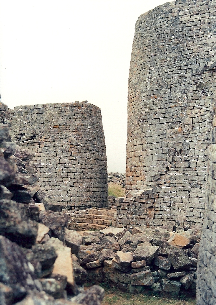 Tower at Great Zimbabwe, Zimbabwe, showing unmortared, dressed masonry. Taken c.1996 on film.